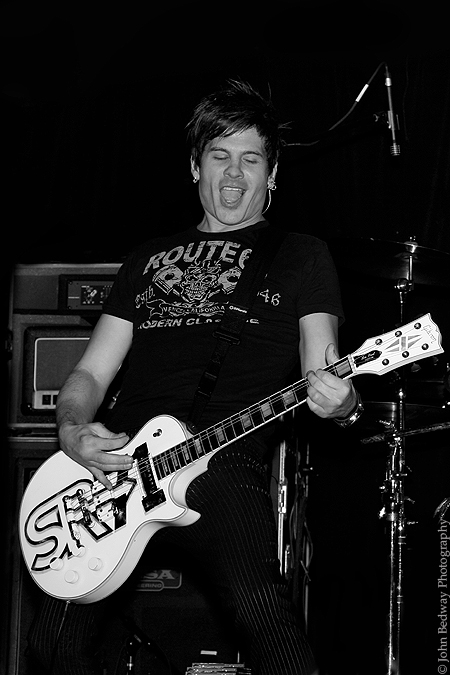 Mitch Allen. Live in Baltimore 11-25-09